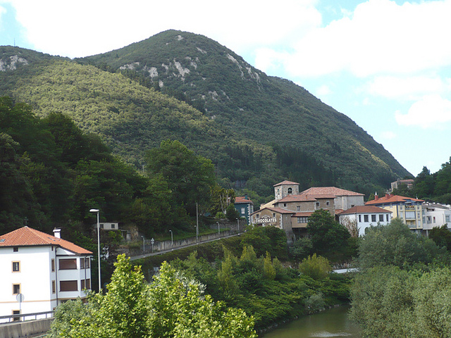 mendaro